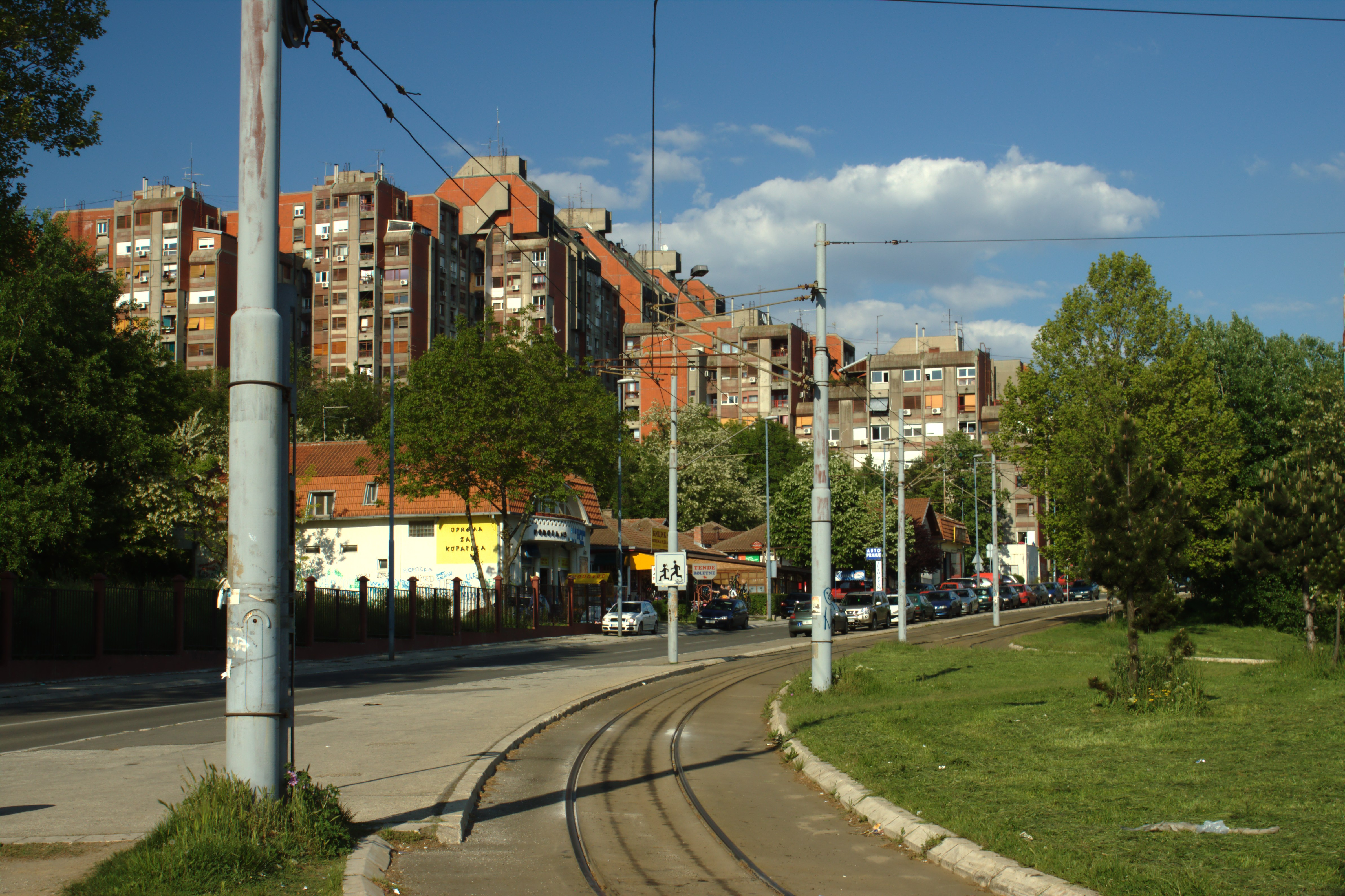 Banjica tram terminus on the southern edge of Belgrade, Serbia